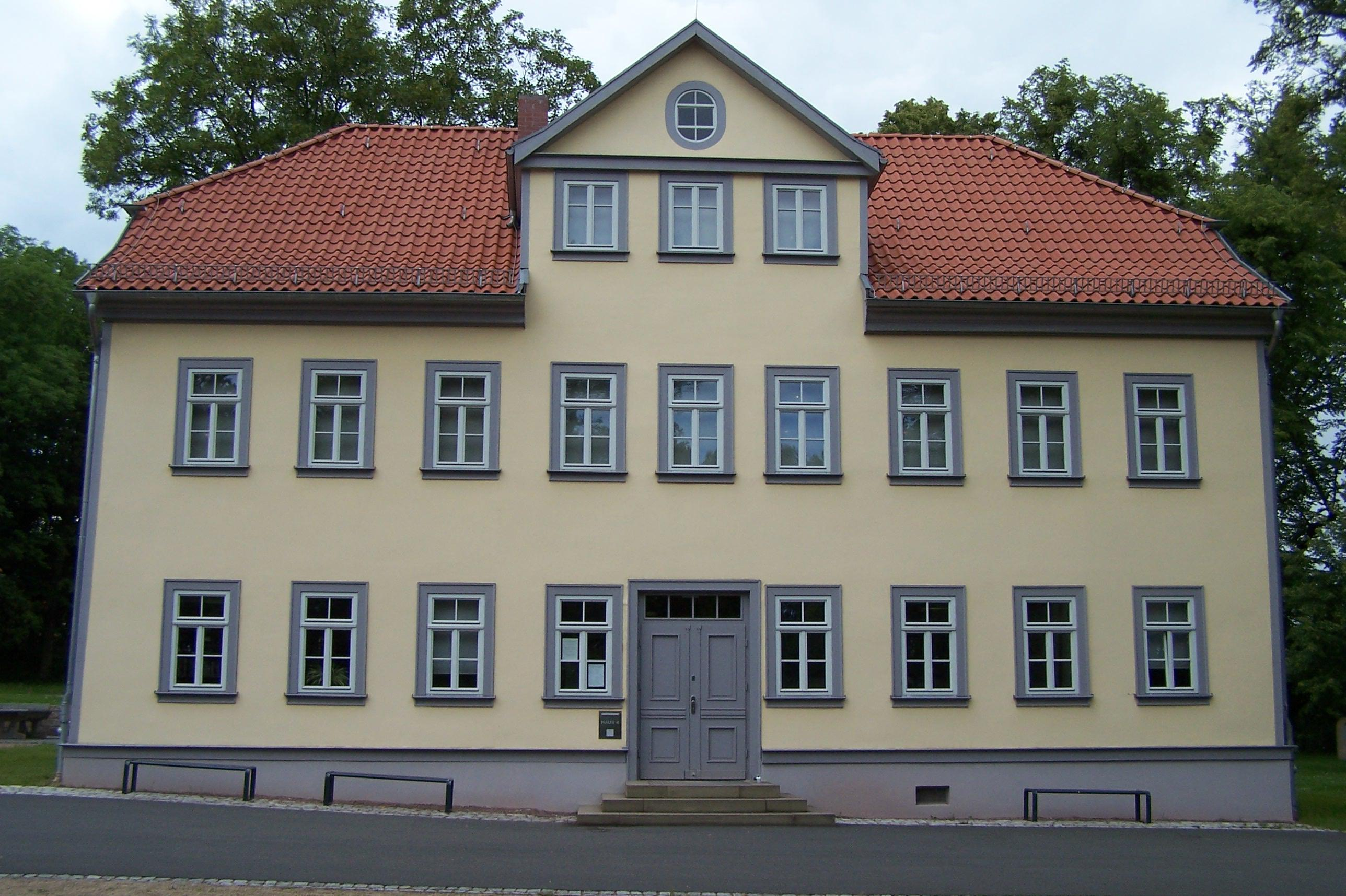 The Museum in Schnepfenthal at the Salzmann school.